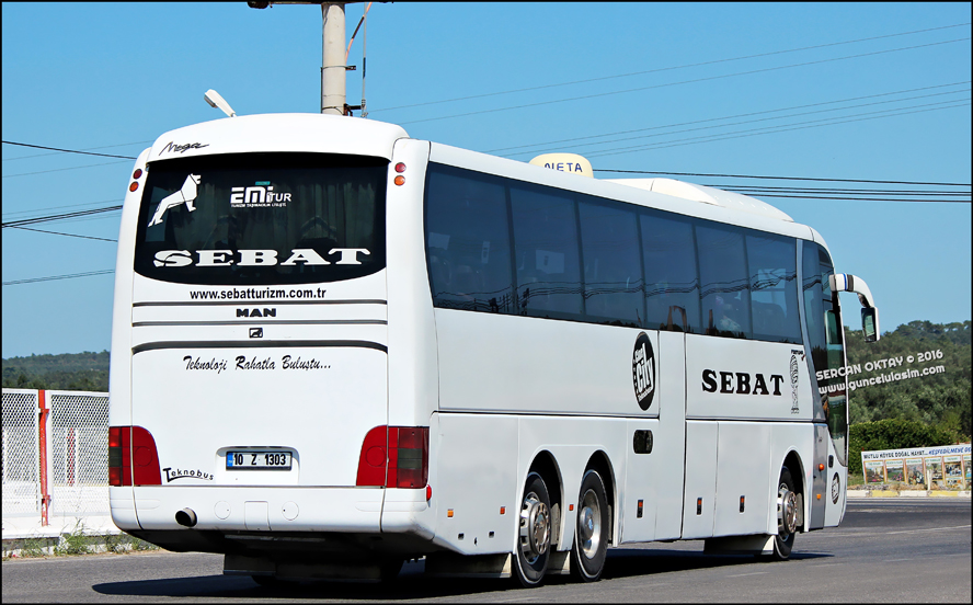 Photos of the MAN Fortuna Mega available in Turkey.